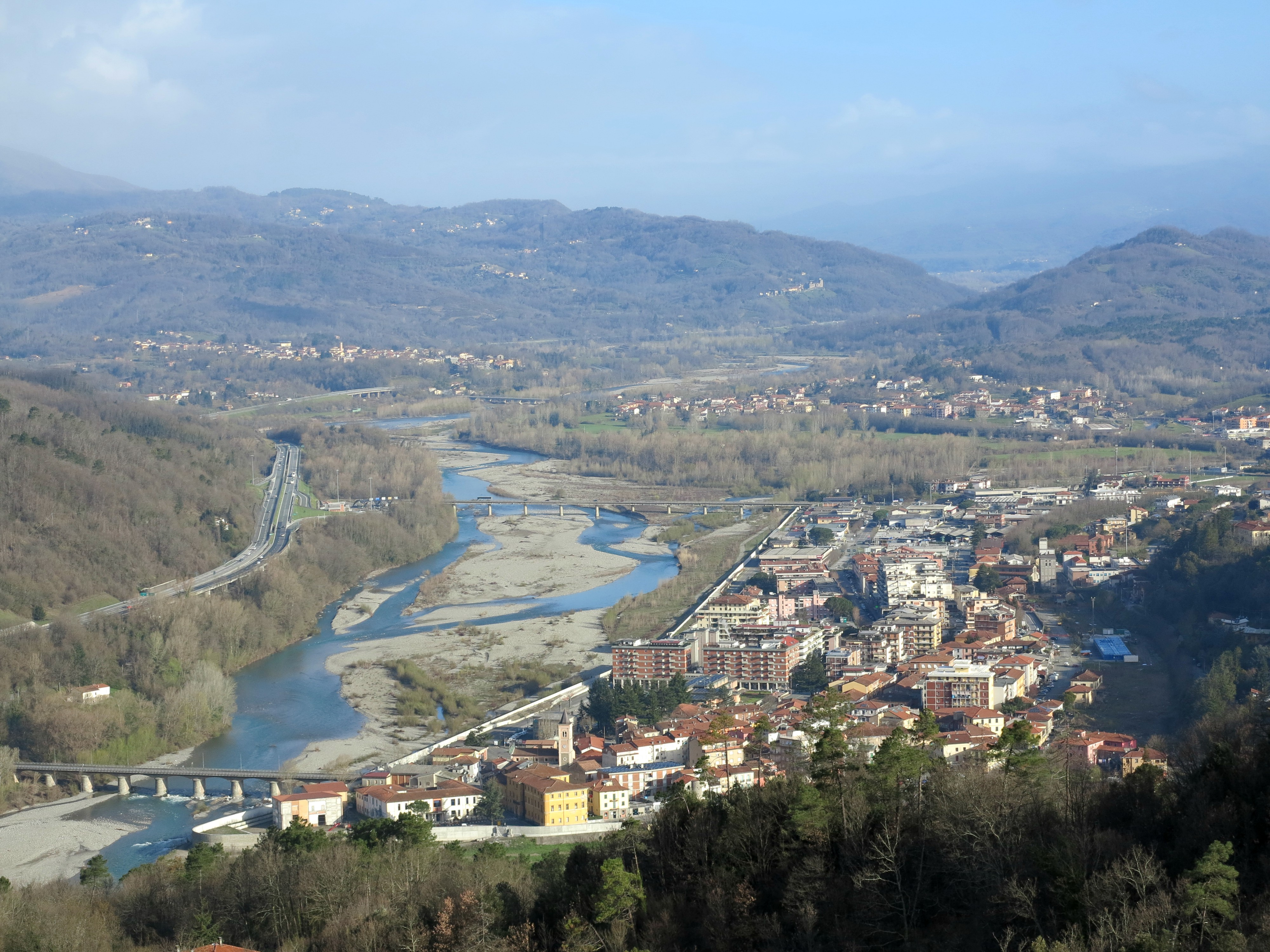 Aulla, roads (A 15), old railway station of Pontremolese railway and bridges over river Magra. Villages Barbarasco (left) and Terrarossa upstream, castle Lusuolo from far.